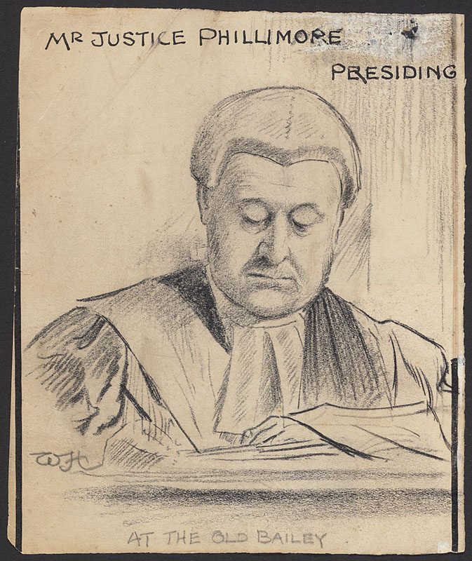 Walter Phillimore, 1st Baron Phillimore (1845-1929)